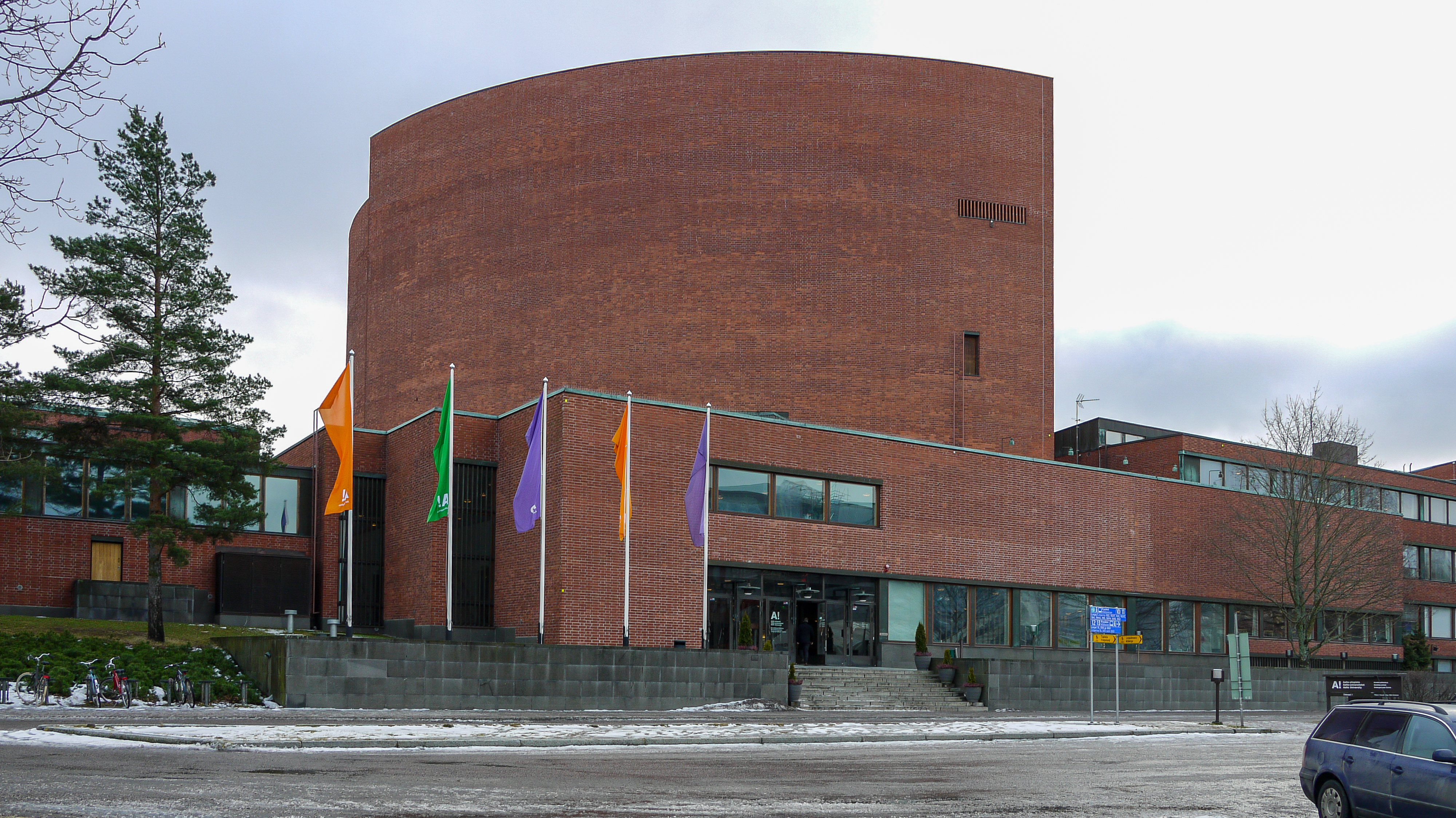 Aalto University Undergraduate Center (Helsinki University of Technology Main Building / Otakaari 1) in Otaniemi, Espoo, Finland in January 2017.